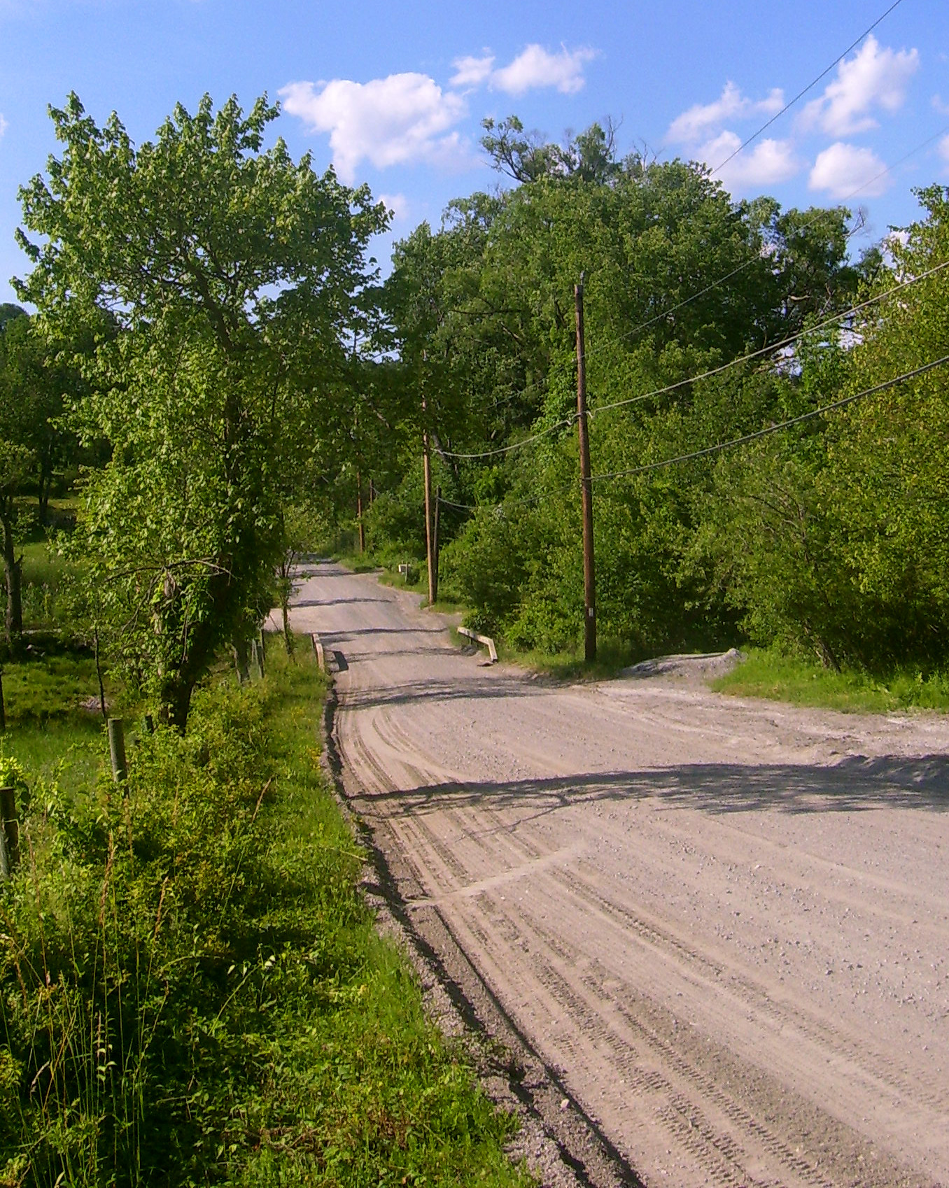 Unimproved former section of the Albany Post Road in Philipstown, NY, USA, listed on the National Register of Historic Places